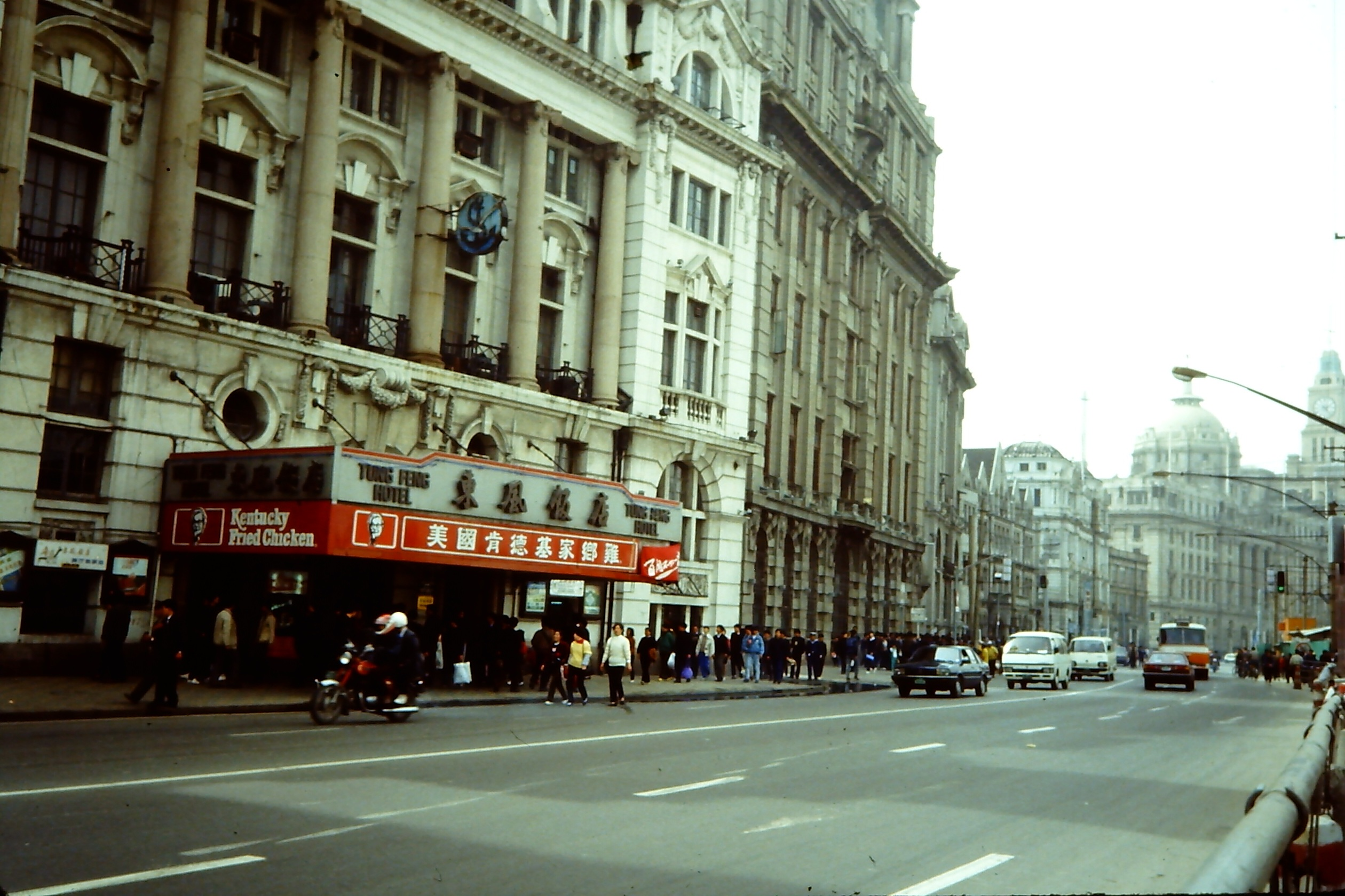 Kentucky Fried Chicken at the Shanghai Club